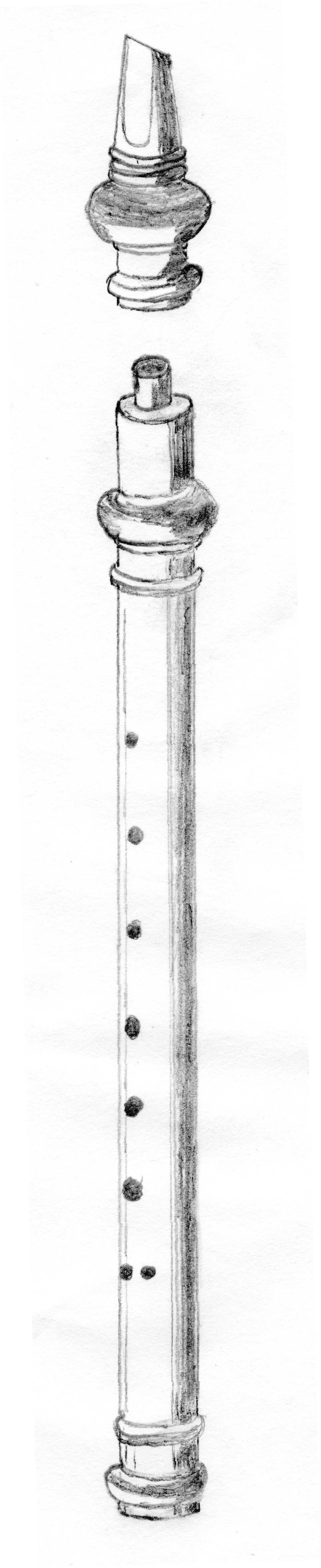 Sketch of the historical musical instrument "chalumeau" based on an illustration from the "Encyclopédie" of Diderot & d'Alembert (1767)